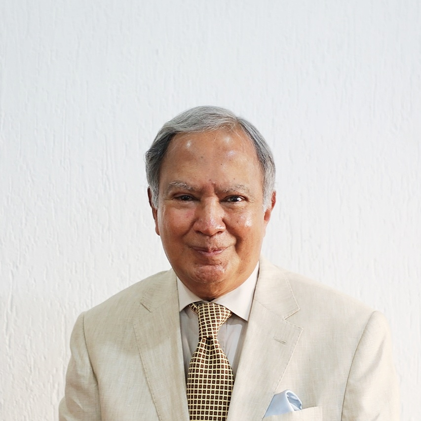 Please replace the old image of the Wikipedia entry for Krishnan Srinivasan scholar and diplomat with this up dated image. Thank you.